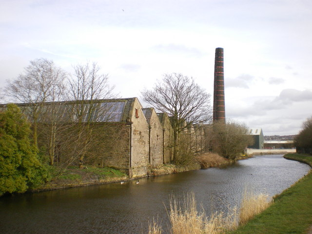 Aero Mill